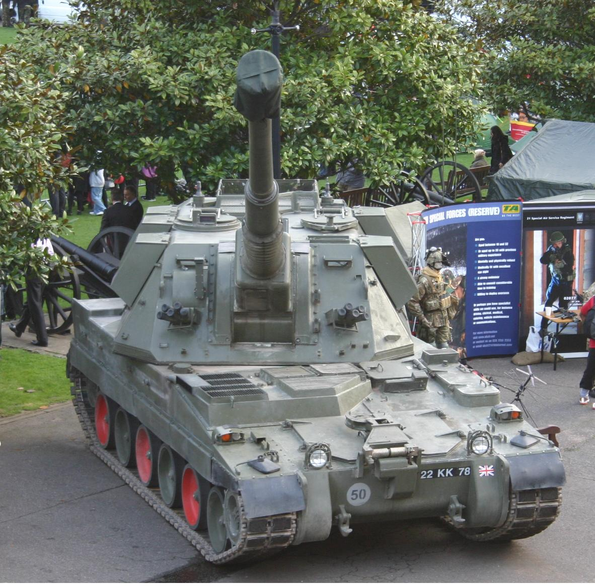 Honourable Artillery company open day